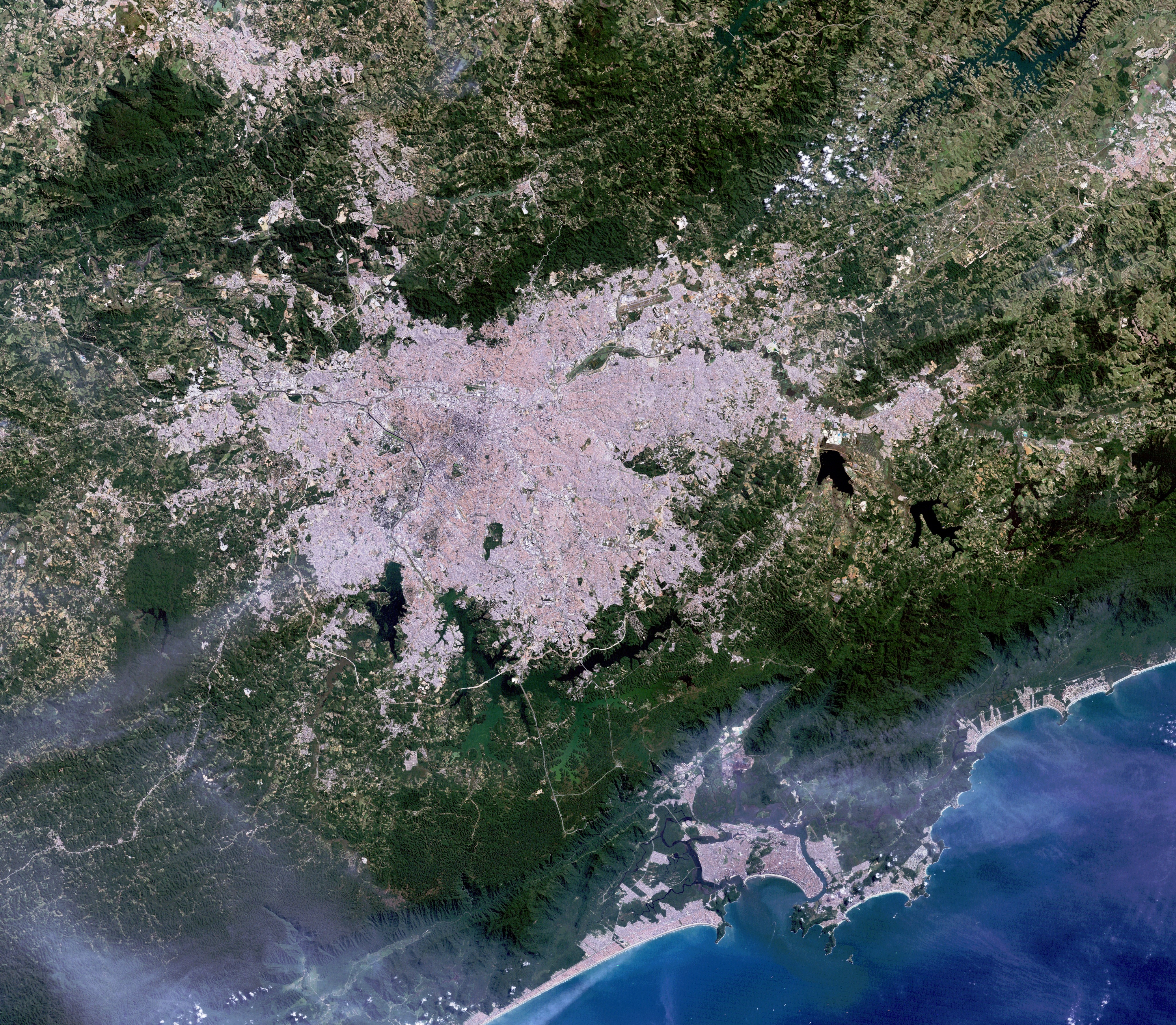 São Paulo satellite image, Landsat-5 2010-04-18, near natural colors, resolution 30 m Used images id LT52190772010108CUB00 and LT52190762010108CUB00